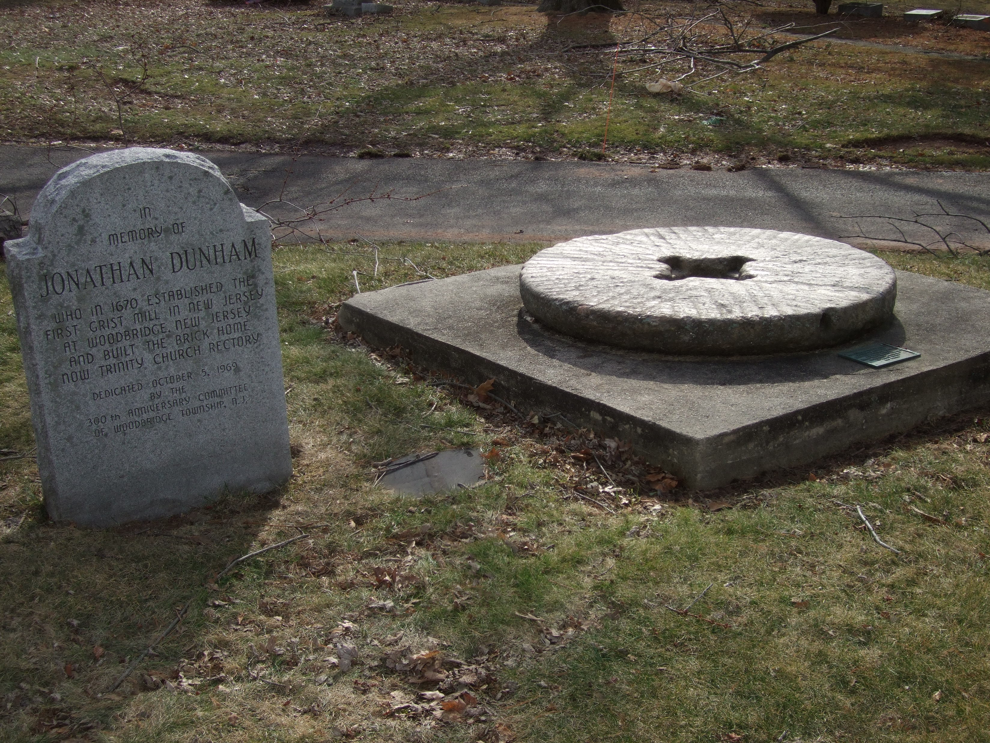 This photo depicts an original stone wheel that was used in the first gristmill of New Jersey and a Memorial to Jonathan Dunham. Woodbridge, NJ.